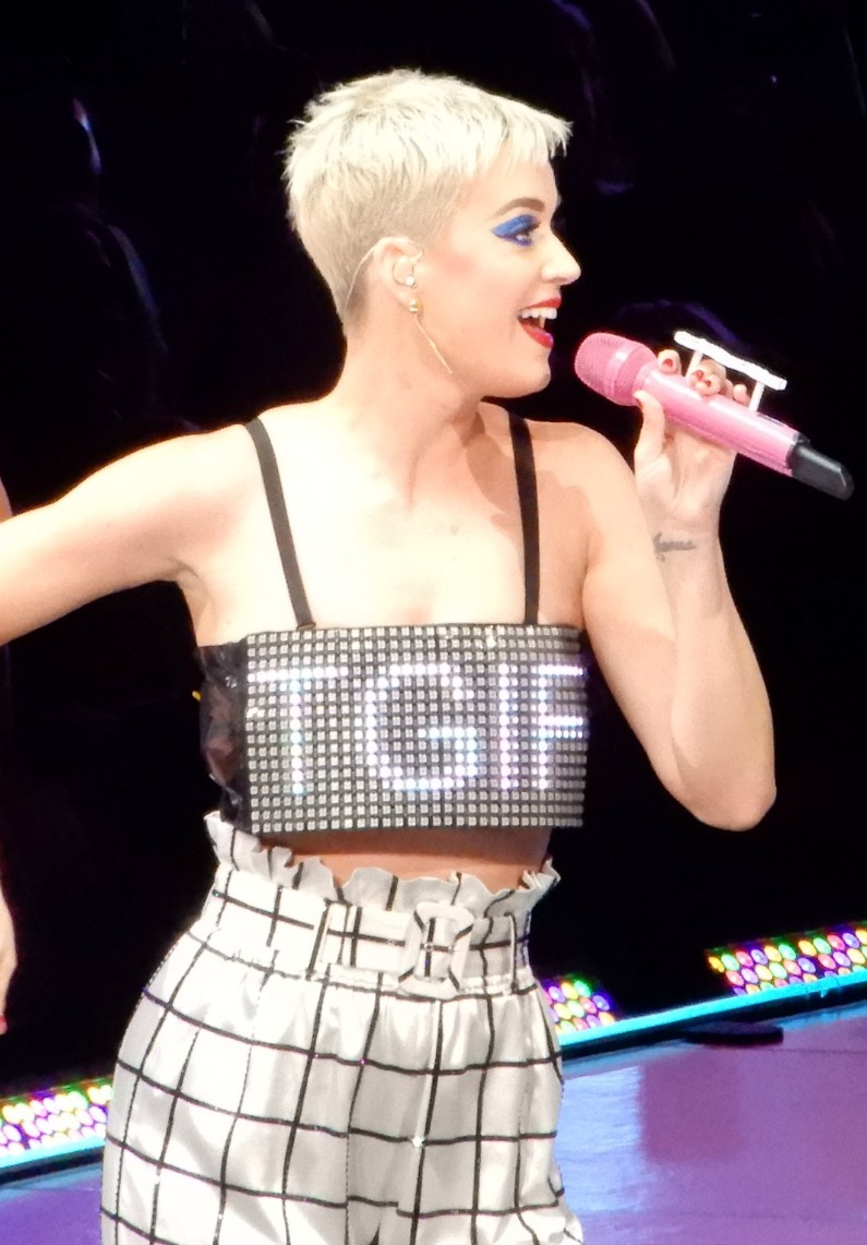 Katy Perry at Madison Square Garden